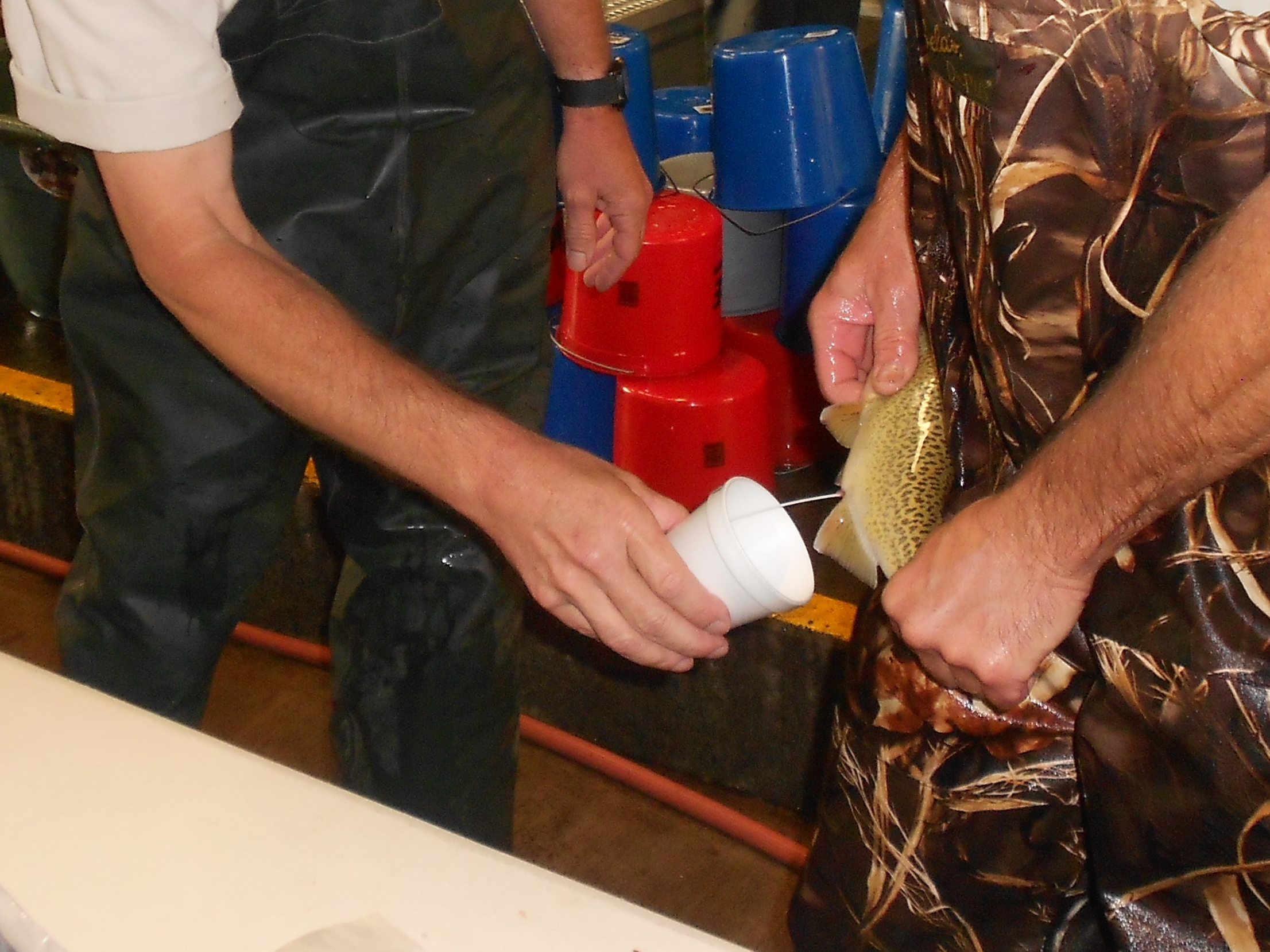 Collecting chinook salmon milt at a USFWS hatchery. Photo Credit: Jane Chorazy USFWS.